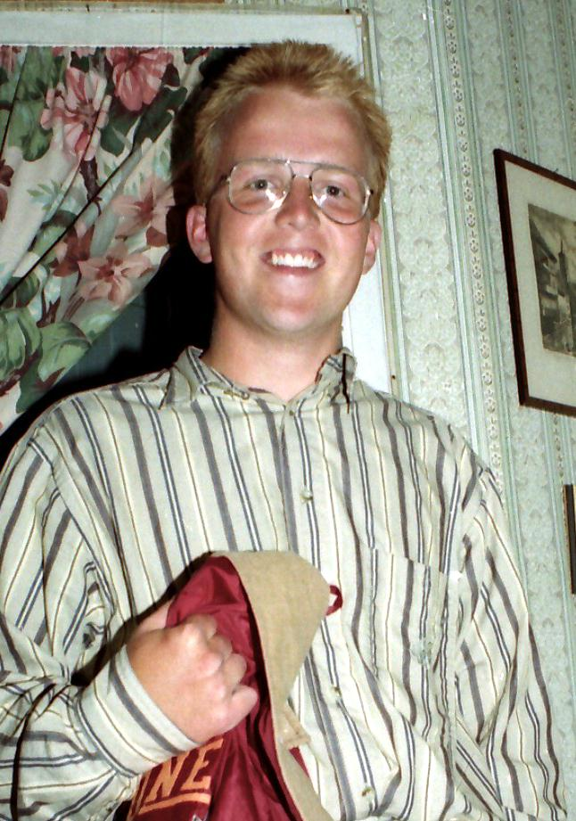 Swedish translator Andreas Holmberg, as released by image creator RistessonPlace: Standers, Sjöbovägen 6242, Ludvika, Sweden